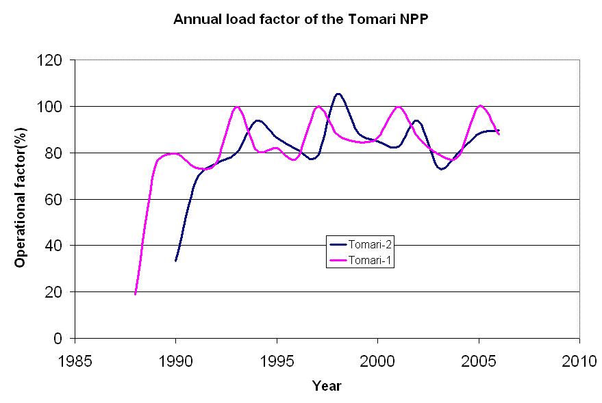 Load Factors for each year of the Tomari NPP